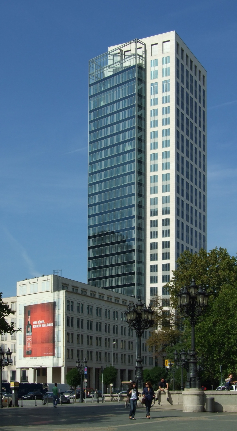 Parktower (former SGZ-Hochhaus)